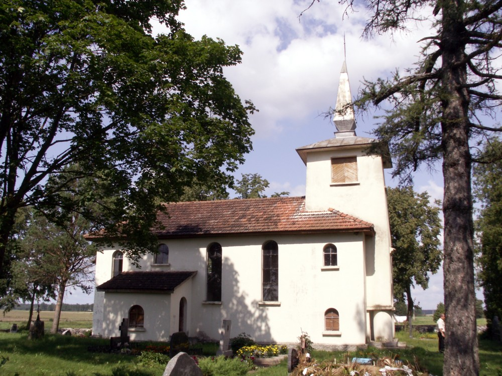 Churche in Mieleišiai